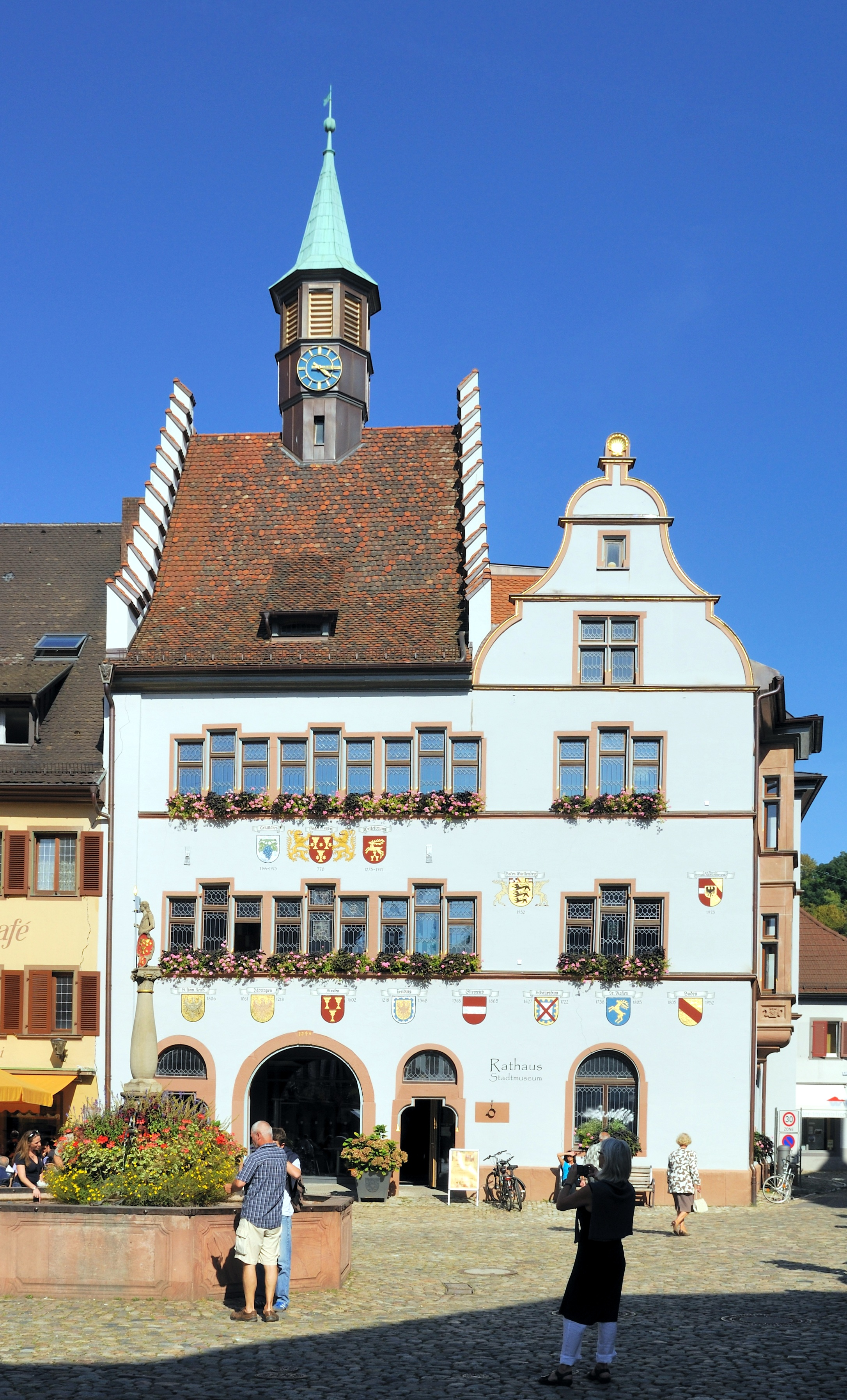 Stauffen: City hall